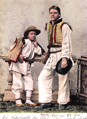 Hutsuls (Ukrainian highlanders of Eastern Carpathian mountains) from Rachiv (former Rachov) district, westernmost part of Zakarpattya (province) / former Czechoslovakia until 1939, now western Ukraine. Antique prewar postcard from Czechoslovakia.